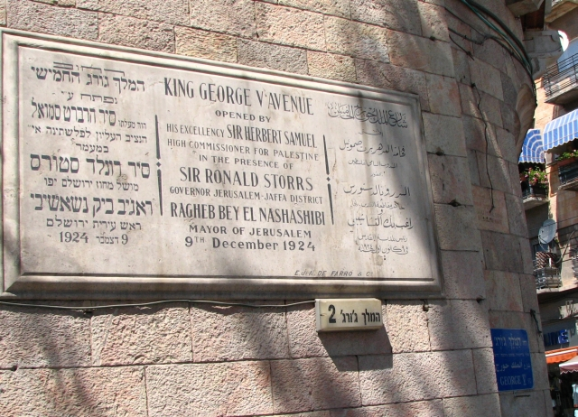 Historic plaque on the corner of King George Street, Jerusalem.